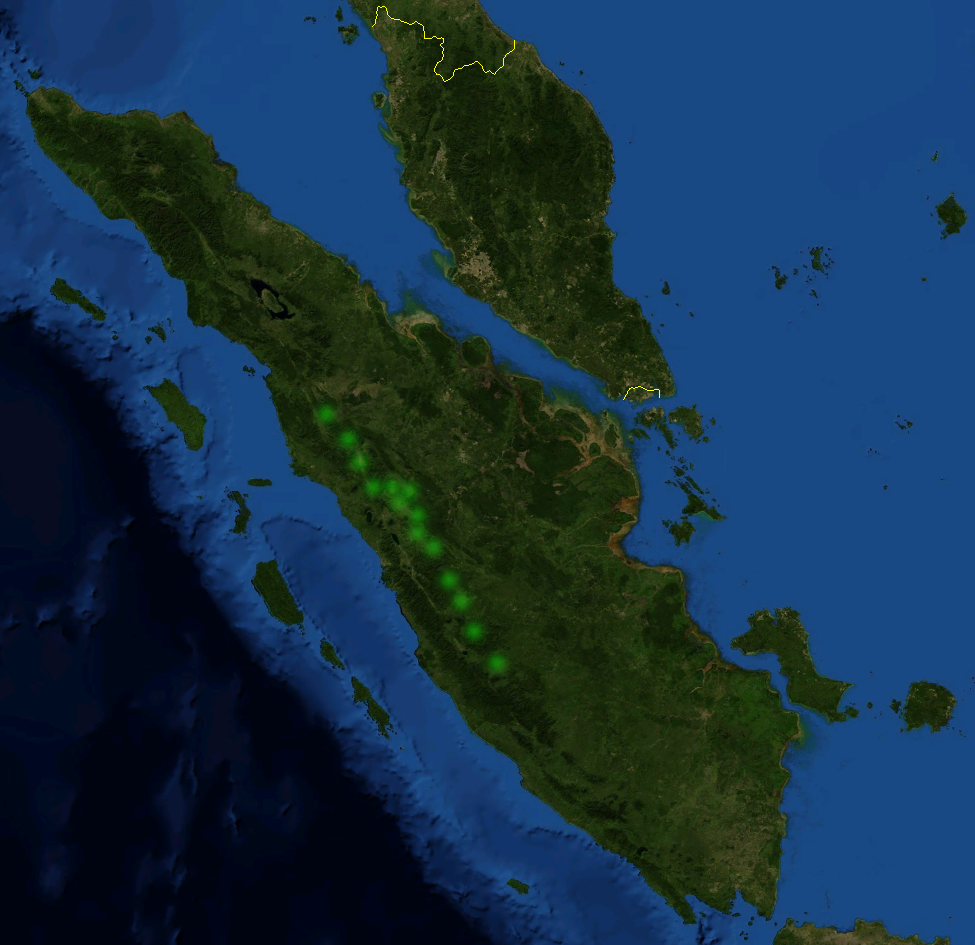 Distribution of Nepenthes bongso. Distribution: Mountains of... Jambi Bengkulu Sumatra Barat Sumatra Utara